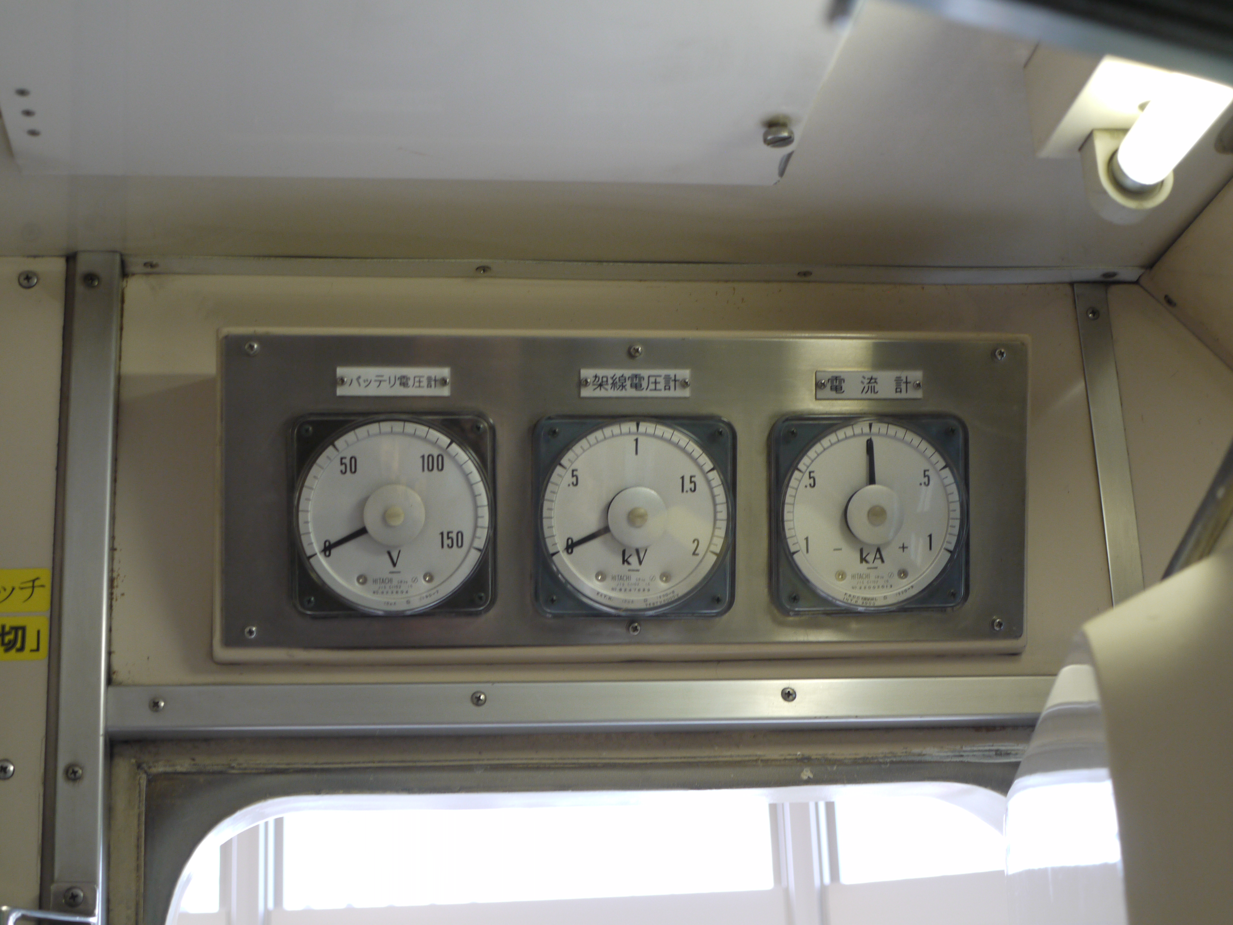 Keio 6722 meters